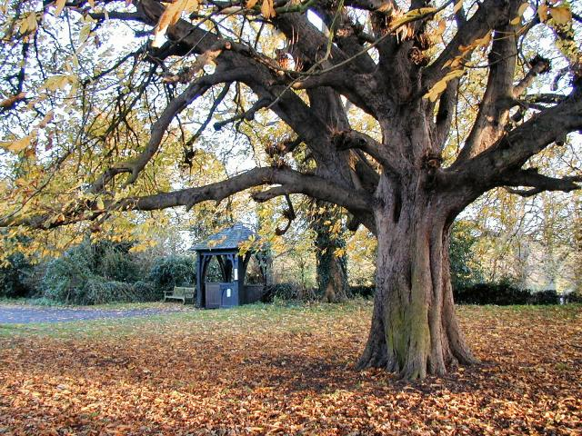 West Leake Church Lych Gate & Chestnut Tree. Magnificent sight in autumn